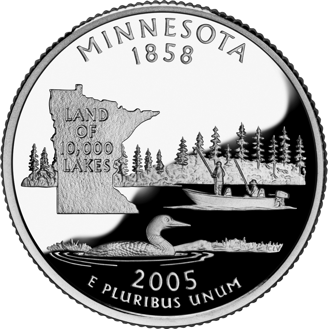 Removed background, cropped, and converted to PNG with Macromedia Fireworks. This image depicts a unit of currency issued by the United States of America. If Fraudulent use of this image is punishable under applicable counterfeiting laws. As listed by the United States Secret Service at money illustrations, the Counterfeit Detection Act of 1992, Public Law 102-550, in Section 411 of Title 31 of the Code of Federal Regulations (31 CFR 411), permits color illustrations of U.S. currency provided:1. The illustration is of a size less than three-fourths or more than one and one-half, in linear dimension, of each part of the item illustrated;2. The illustration is one-sided; and3. All negatives, plates, positives, digitized storage medium, graphic files, magnetic medium, optical storage devices, and any other thing used in the making of the illustration that contain an image of the illustration or any part thereof are destroyed and/or deleted or erased after their final use. Certain coins contain copyrights licensed to the U.S. Mint and owned by third parties or assigned to and owned by the U.S. Mint [1]. For the United States Mint circulating coin design use policy, see [2]; for the policy on the 50 State Quarters, see [3]. Also: COM:ART #Photograph of an old coin found on the Internet